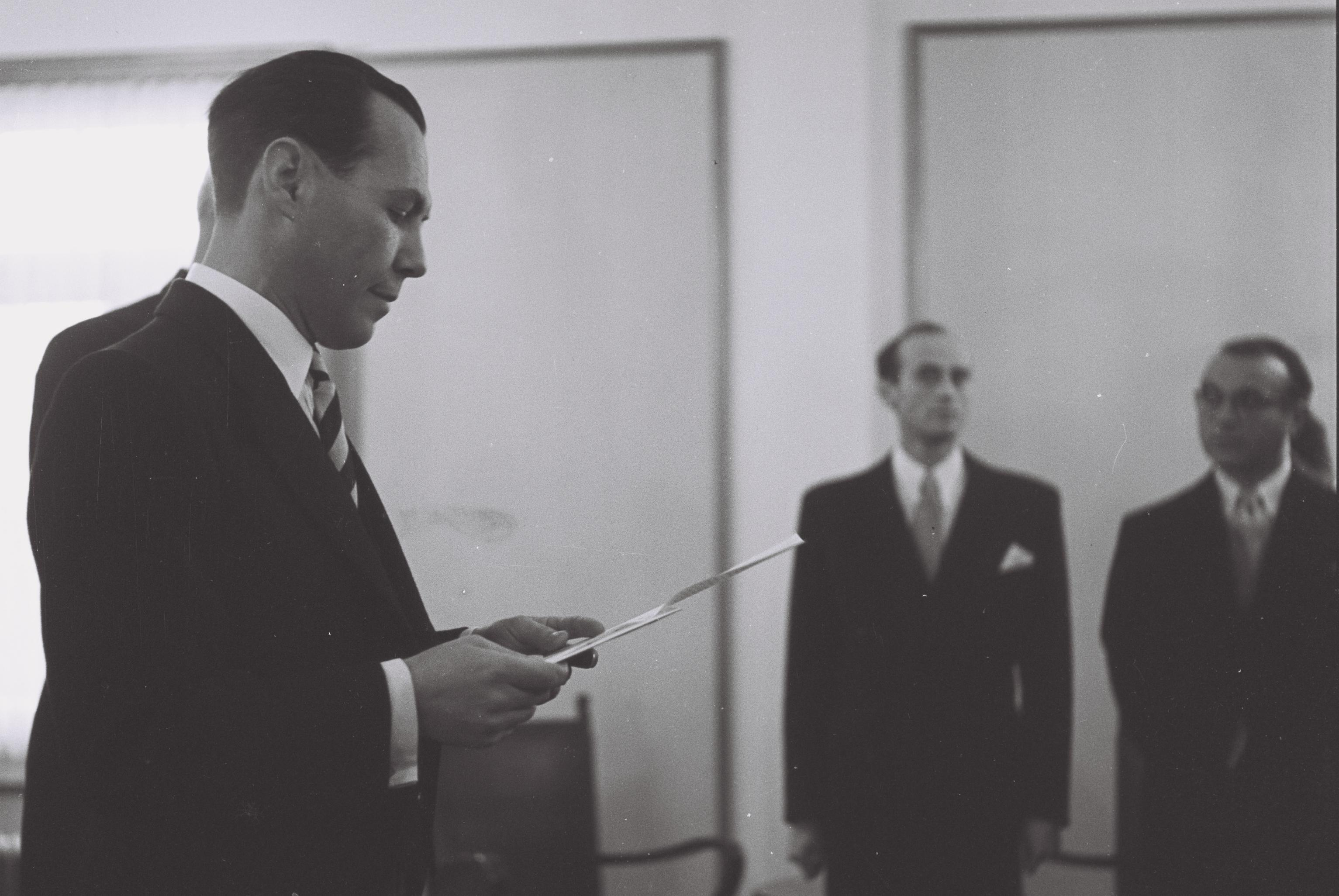 Eduard Goldstücker the Czechoslovak ambassador to Israel reads his government's message upon submitting his credentials.